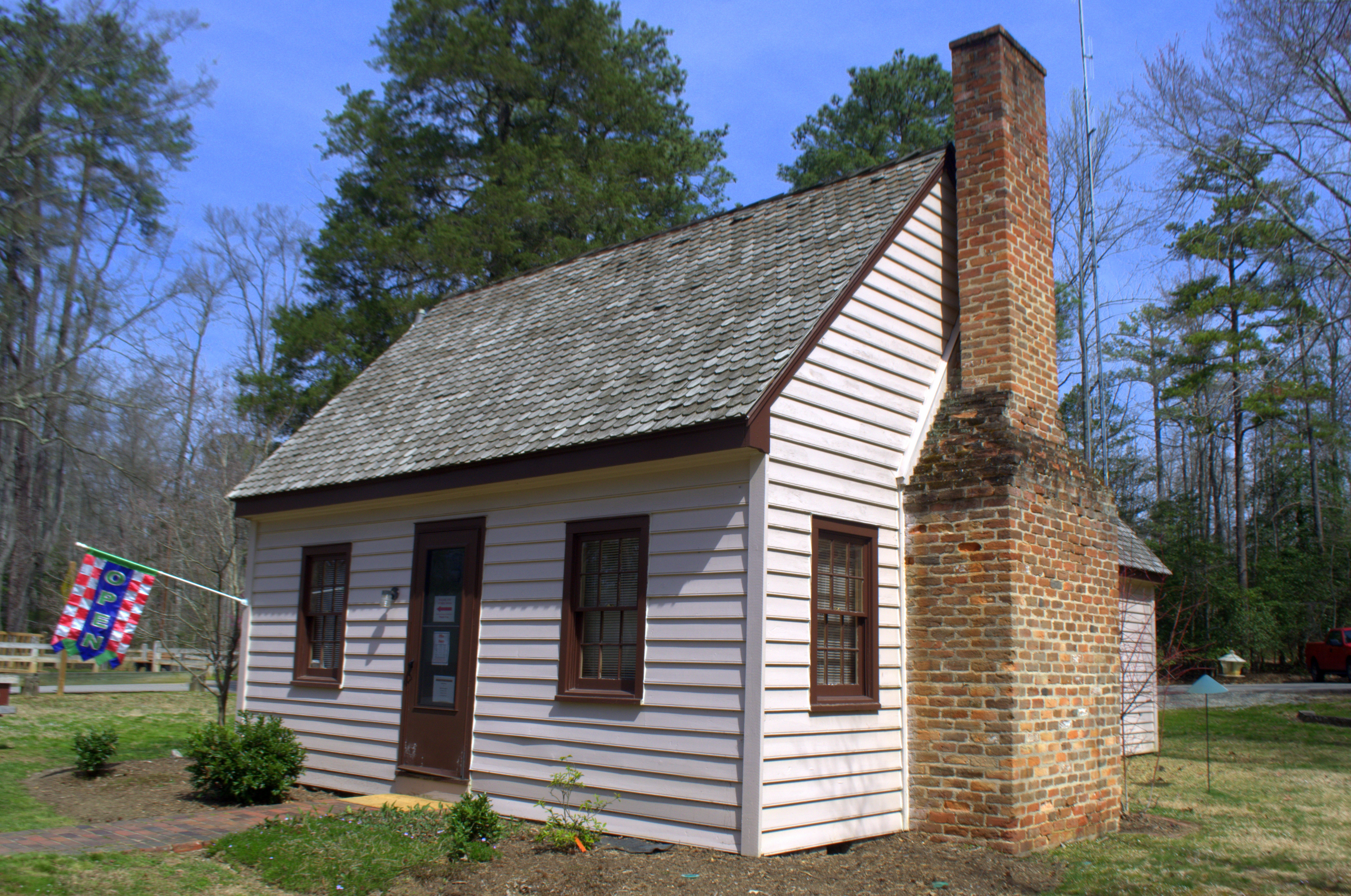 Fendley Station was a water station on the Bright Hope Railroad and it has been remodeled into a Park Office at Pocahontas State Park.